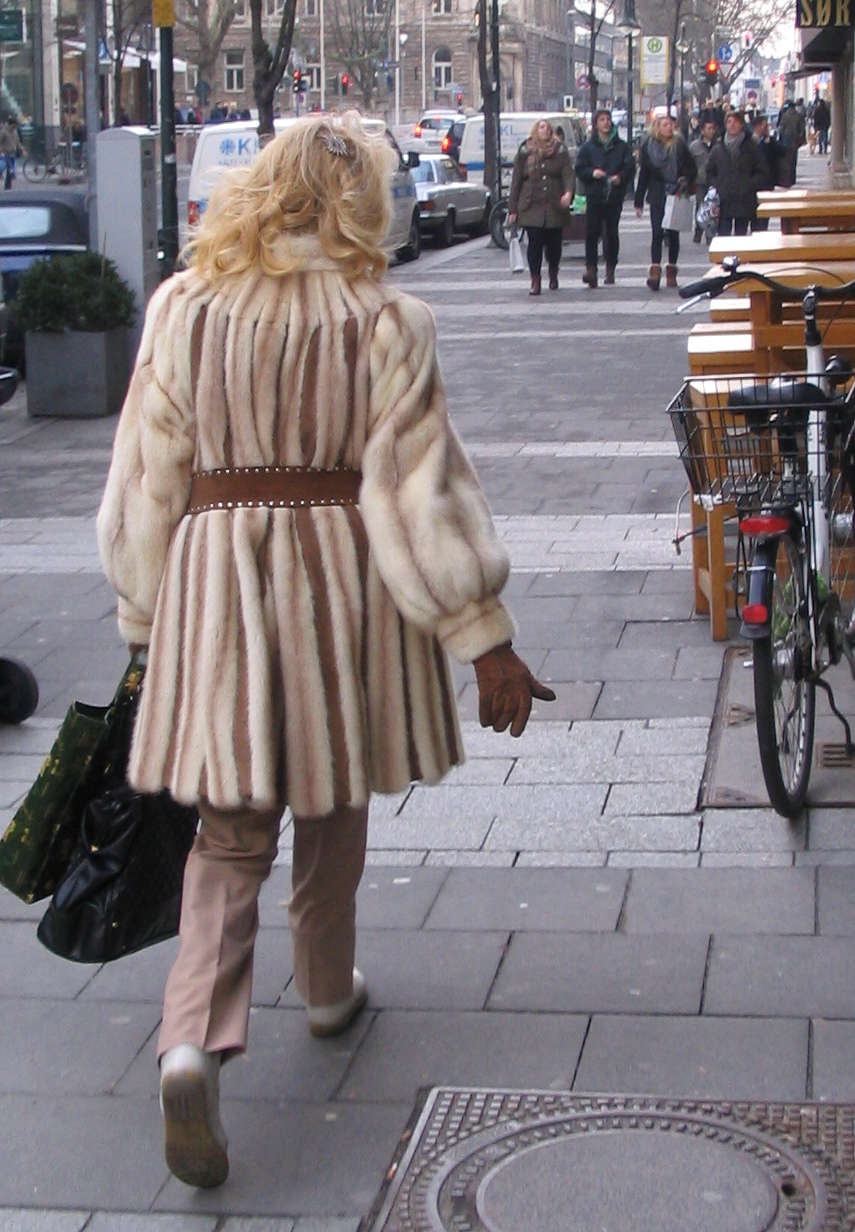 Browncross mink fur coat